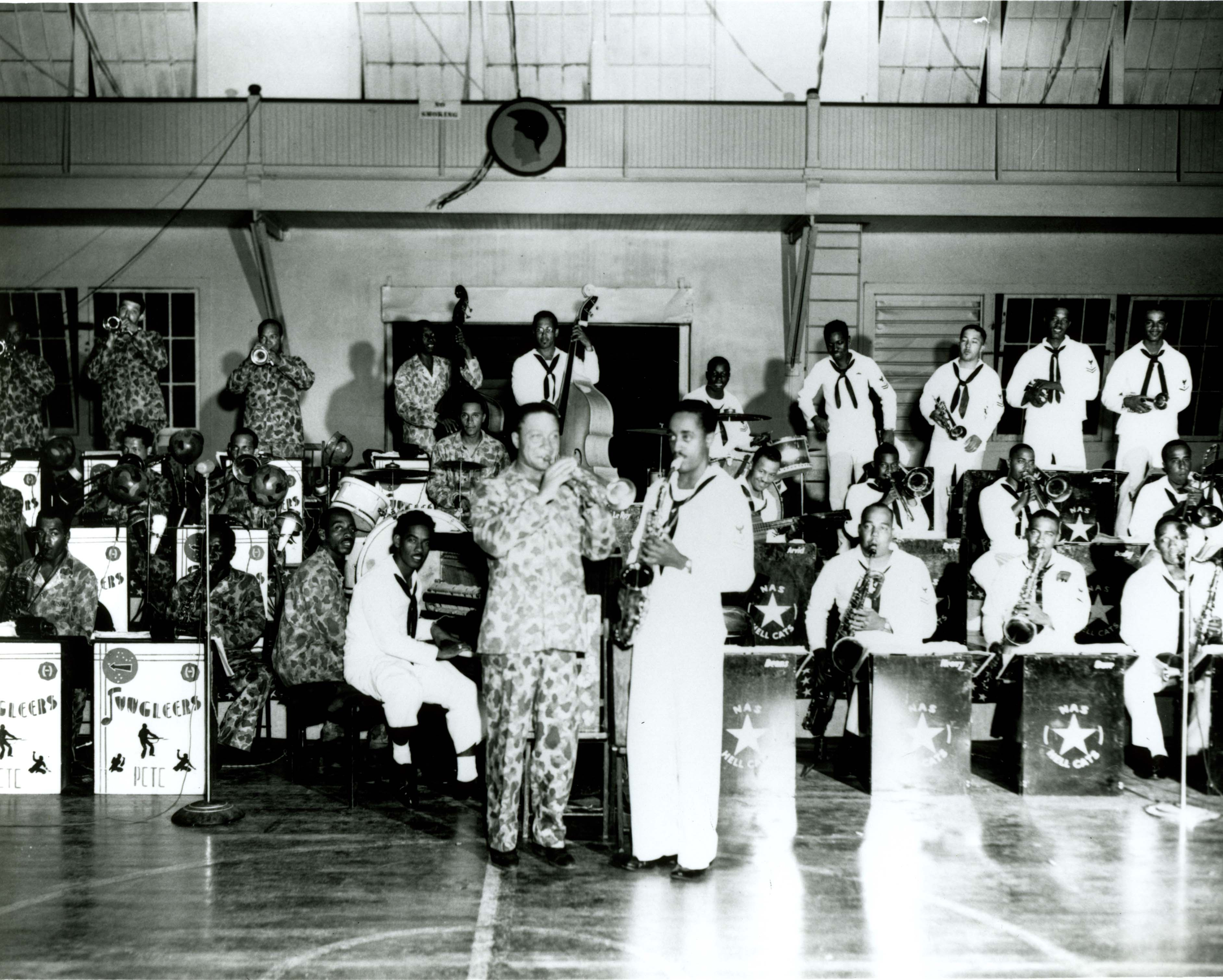 Photo of Army and Navy Bands at a War Bond Rally in the Hawaiian Armory June 19, 1945.